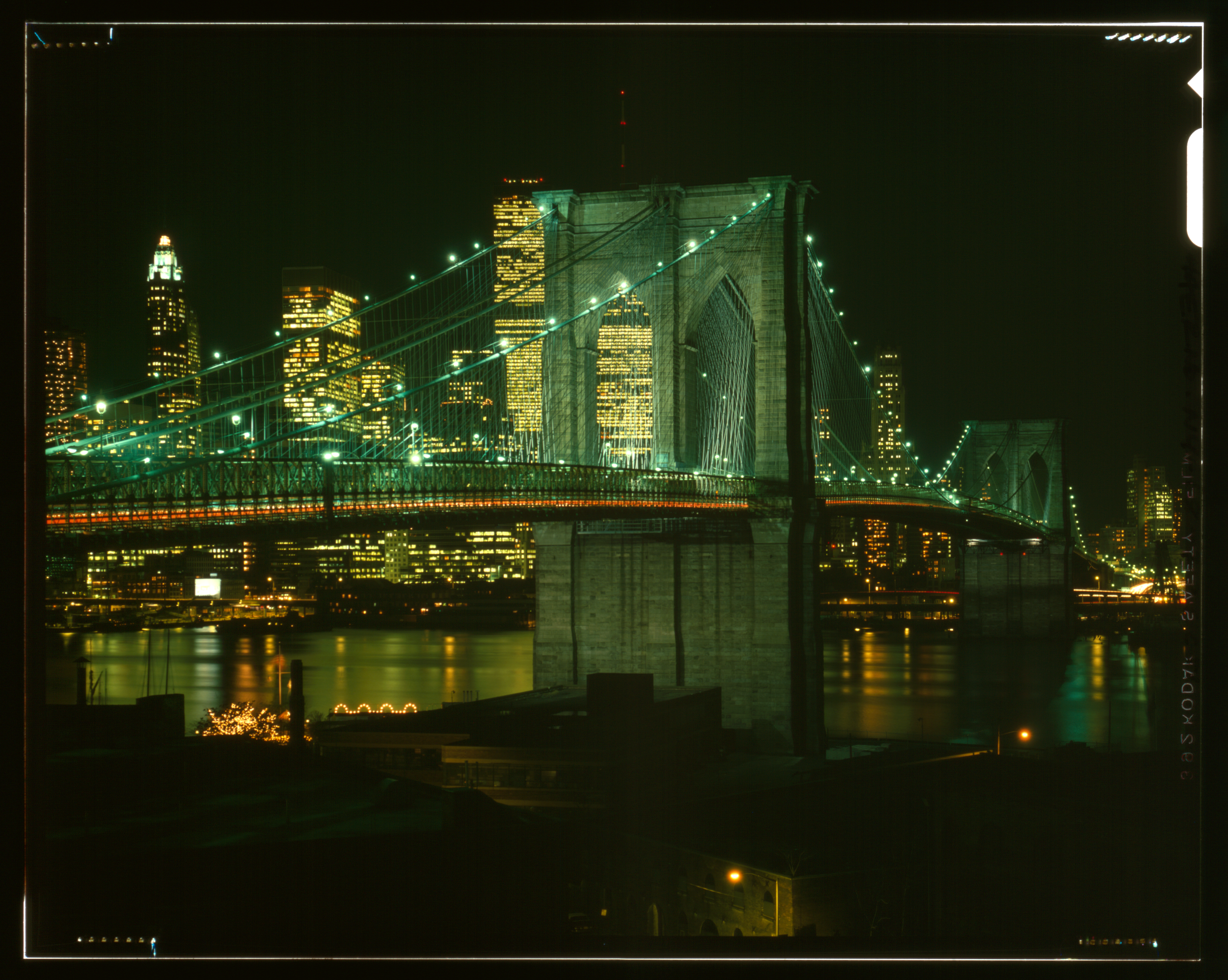 Brooklyn Bridge, Spanning East River between Brooklyn & Manhattan, New York City, New York County, NY Library of Congress information: TITLE: Brooklyn Bridge, Spanning East River between Brooklyn & Manhattan, New York City, New York County, NY CALL NUMBER: HAER, NY,31-NEYO,90- DATE: Documentation compiled after 1968. NOTE: Survey number HAER NY-18 Building/structure dates: 1869 SUBJECTS: NEW YORK--New York County--New York City suspension bridges COLLECTION: Historic American Engineering Record (Library of Congress) REPOSITORY: Library of Congress, Prints and Photograph Division, Washington, D.C. 20540 USA CARD #: NY1234